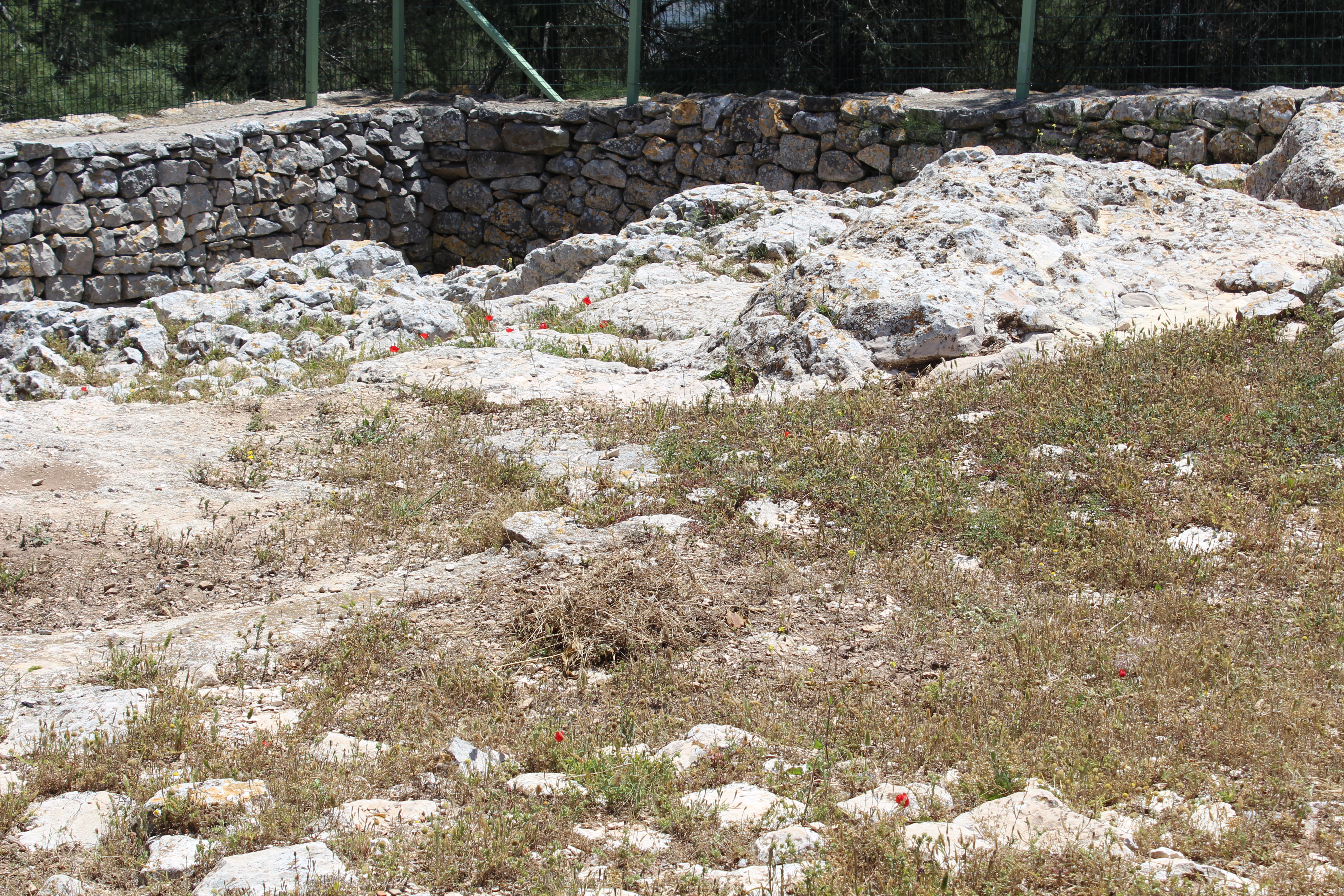 Location of the Sacrifice of Isaac, Mount Gerizim This image was taken as part of the Elef Millim project trip to Mount Gerizim, near the town of Nablus (biblical Shechem) which was held on Friday, 26th April 2013. To view all images uploaded as part of the Elef Millim Project